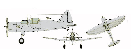 Three-view illustration of the Fleet Model 60 "Fort" trainer aircraft.